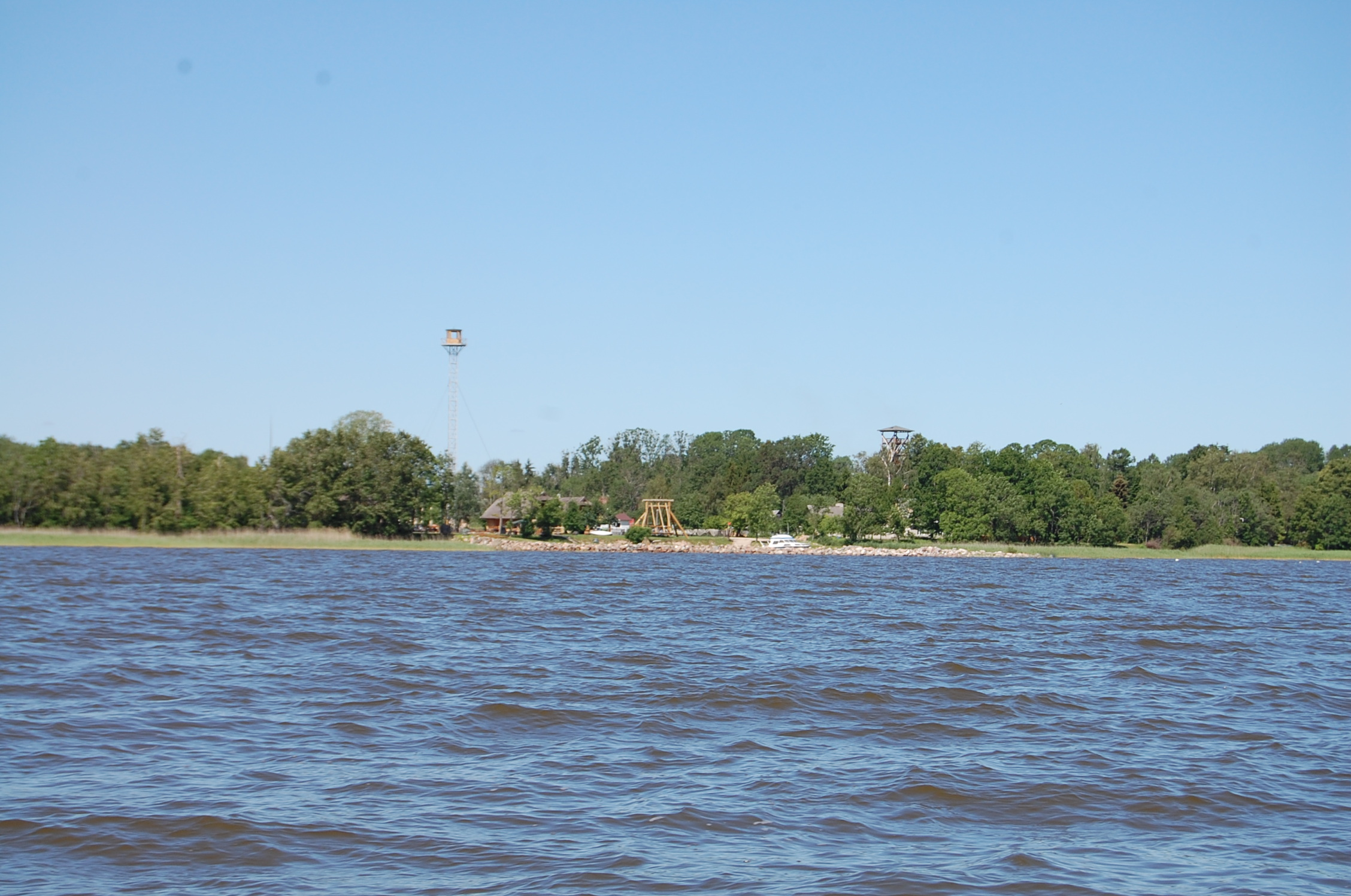 Estonia, lake Võrtsjärv. Beach of village Valma in Viljandi county